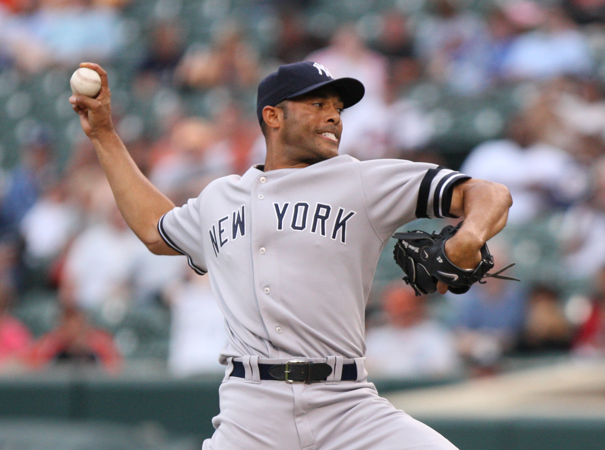 New York Yankee Mariano Rivera pitched a scoreless ninth inning against the Baltimore Orioles, Sunday July 29, 2007 at Camden Yards in Baltimore. The Yankees won 10-6.